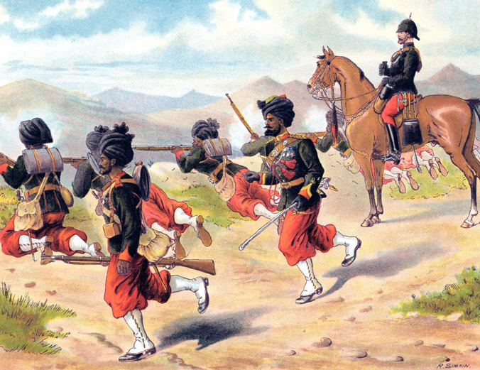 29th Bombay Native Infantry (now 11 Baloch, Pakistan Army) on firing exercise. Coloured lithograph by Richard Simkin, c. 1885.